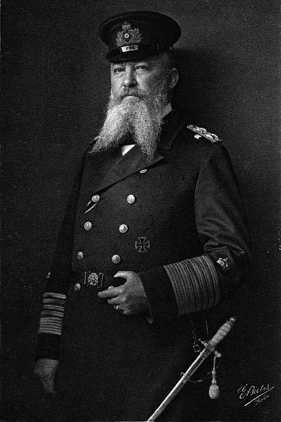 German Admiral Alfred von Tirpitz, circa 1903.